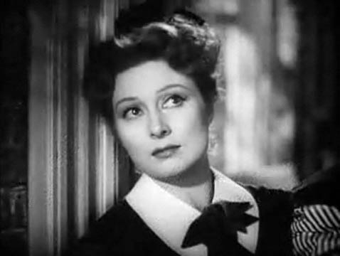 Cropped screenshot of Greer Garson from the trailer for the film Pride and Prejudice